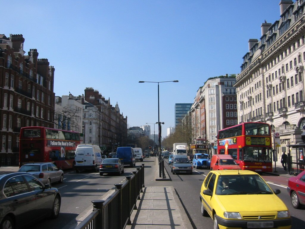 Marlybone Road, London, looking West from Baker Street Date: 4th April 2003 12:40 1 Photograph: ed g2s • talk